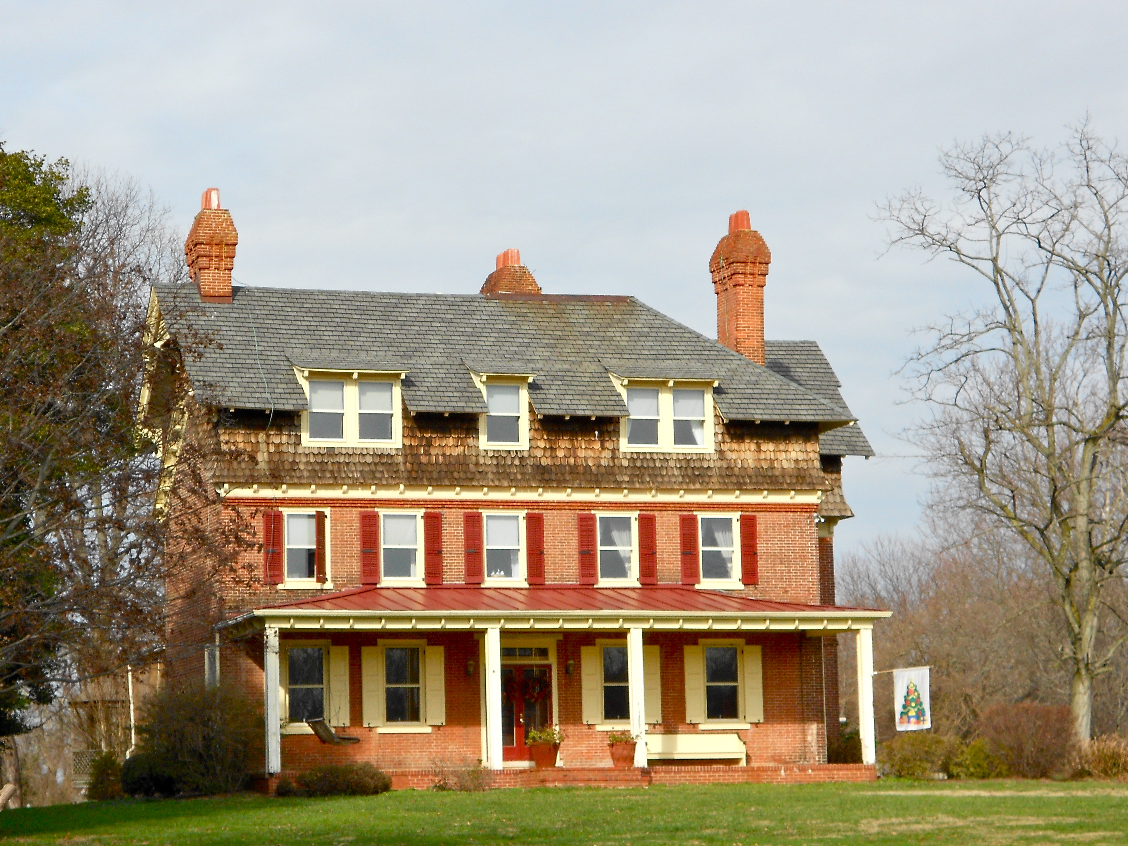 "Fairview" on the NRHP since April 8, 1982, on U.S. Route 13, west of Delaware City, New Castle County, Delaware. Note that there are 4 other "Fairviews" on the NRHP in New Castle County. The original house was built in 1822 (according to date on west facade); expanded by architect Frank Furness in 1885 for John C. Higgins.